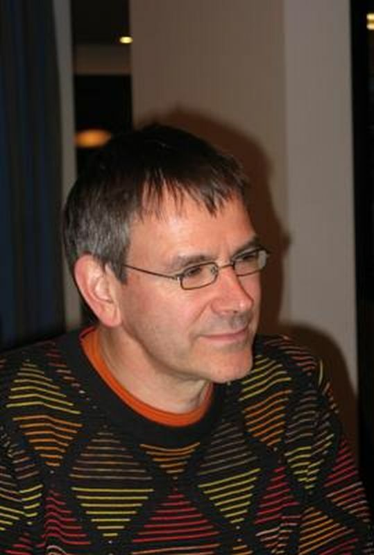 Stefan Müller, Oberwolfach 2010